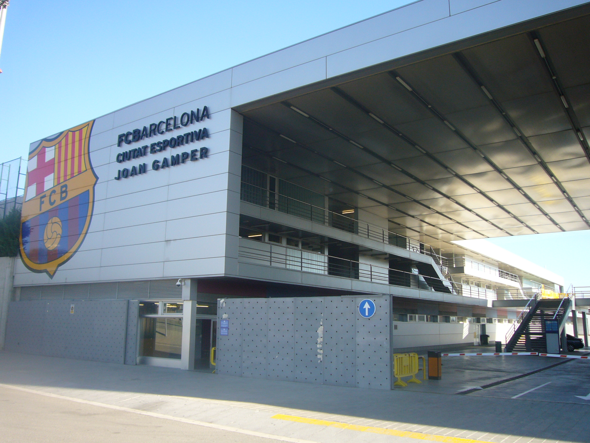 Ciutat Esportiva Joan Gamper, entrance